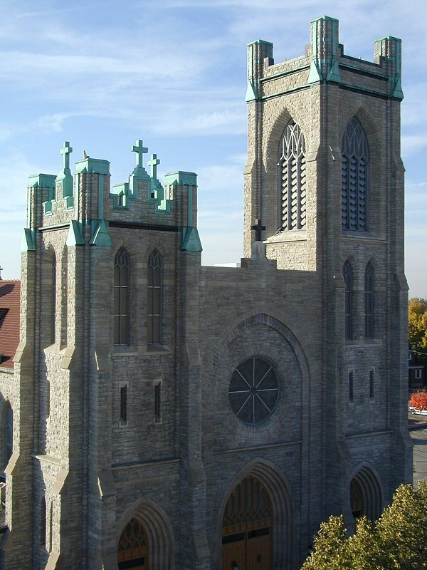 A view of St. Mary Cathedral looking northwest.